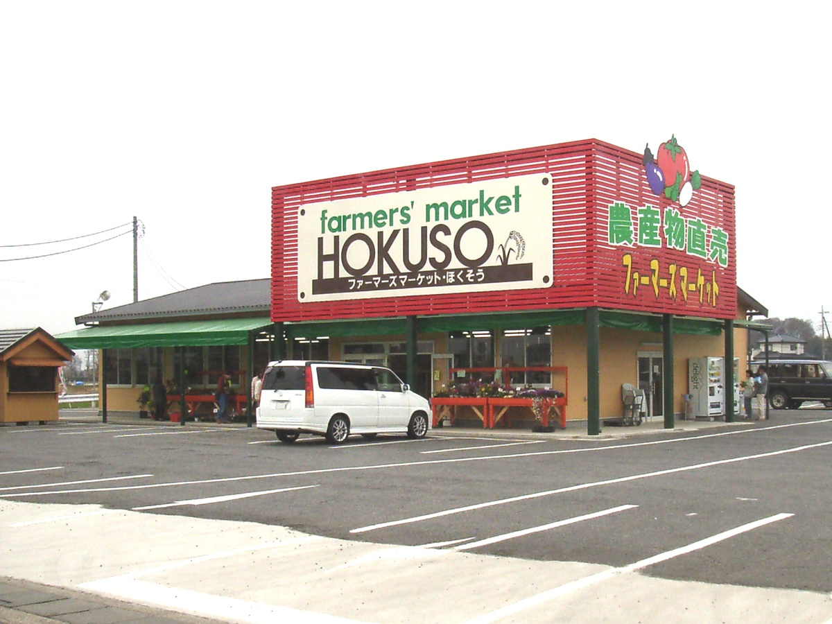 Exterior of famers' market HOKUSO, is produce market in Joso City, Ibaraki Prefecture, this photo shoot on March 20, 2005.